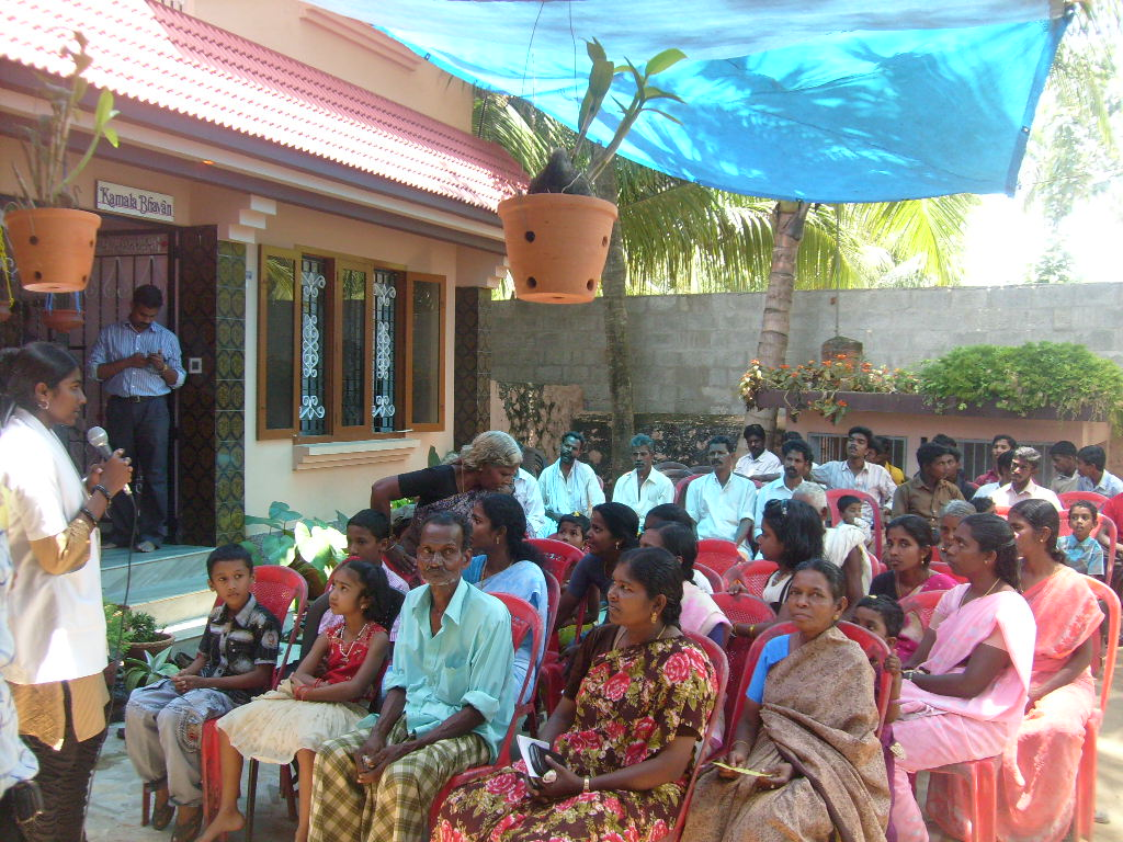 MediCamp-13